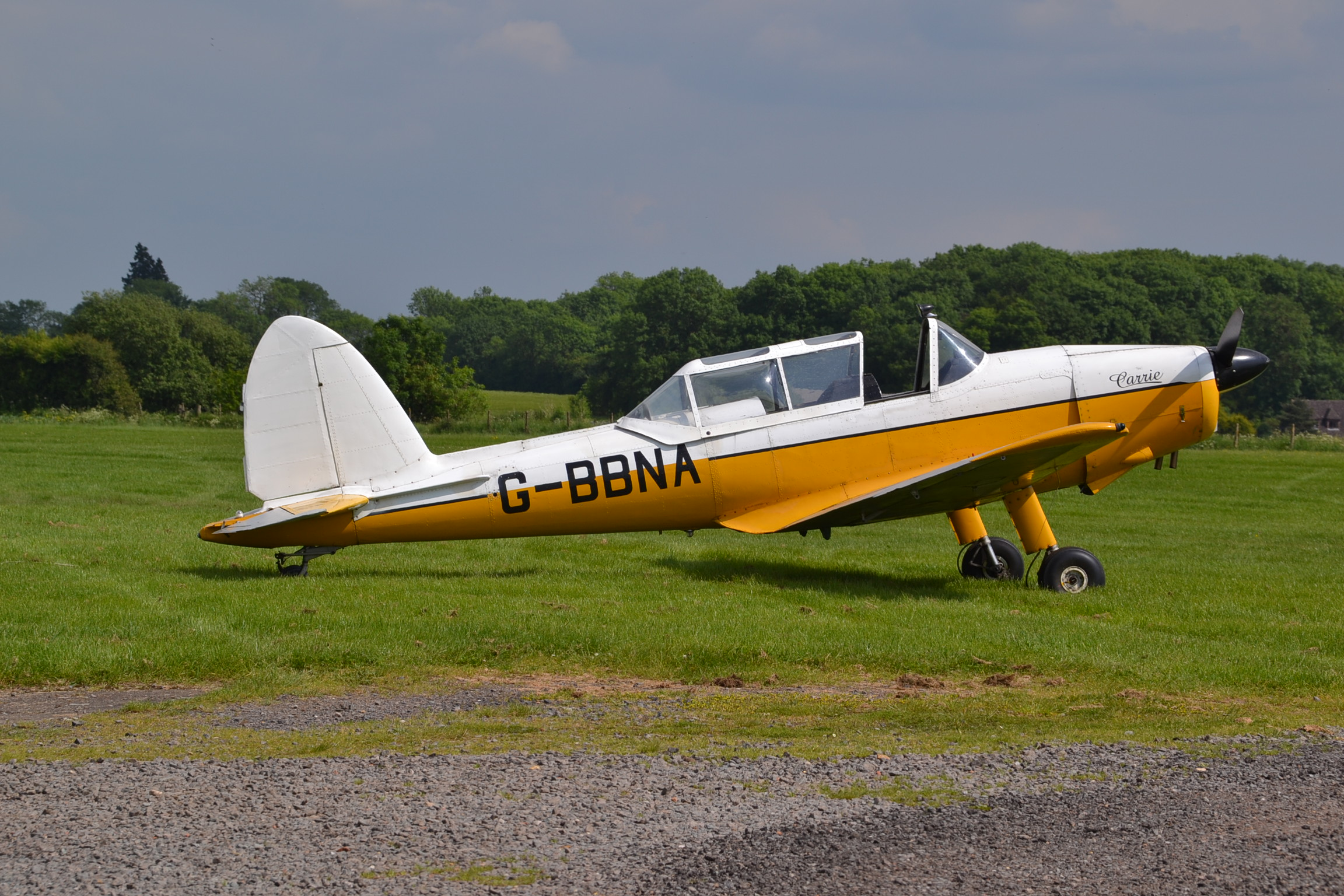 de Havilland Canada DHC-1 Supermunk prototype at Husbands Bosworth, Leics.,01/06/14.